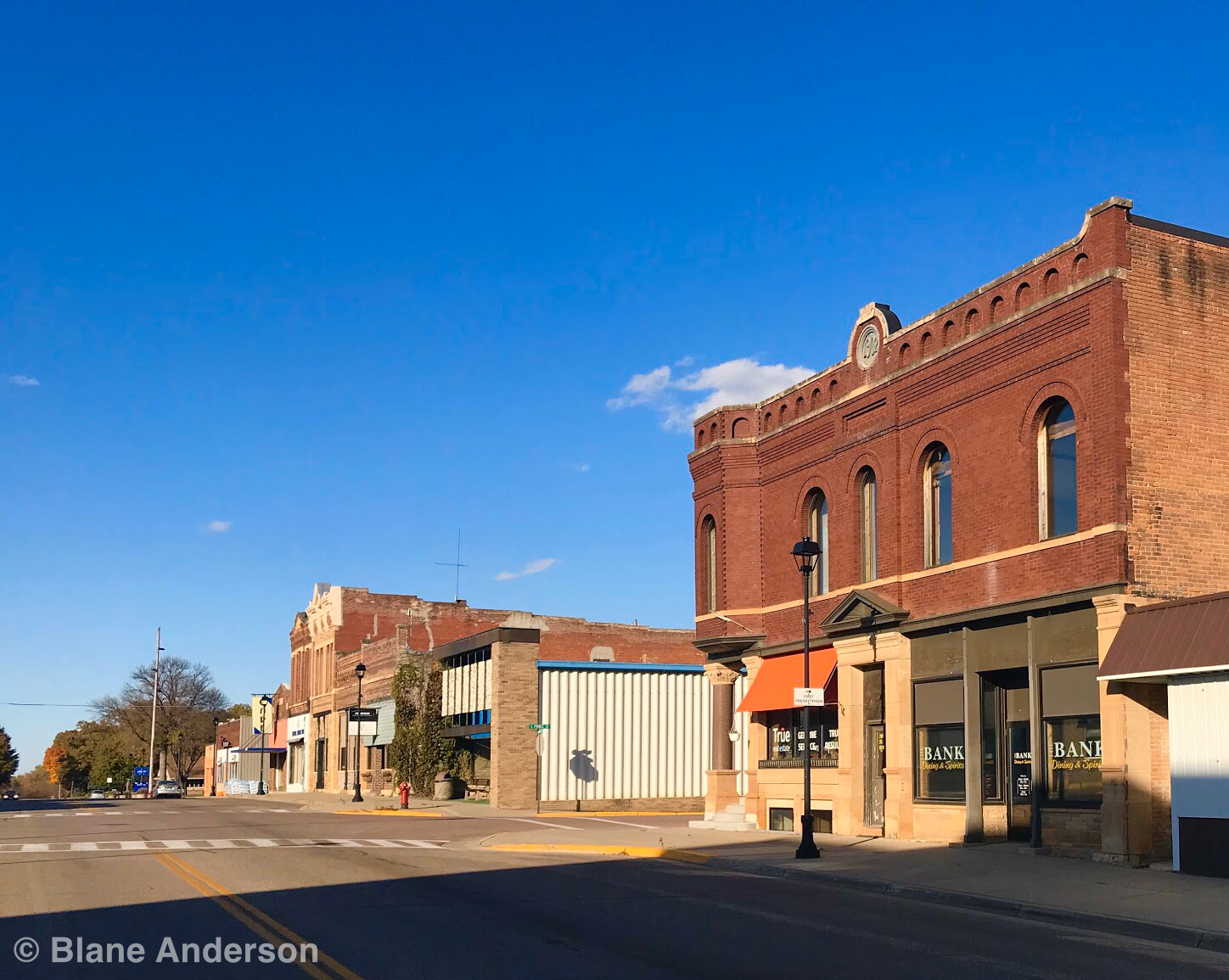 Photograph of the Main Street historical business block taken October 19, 2019